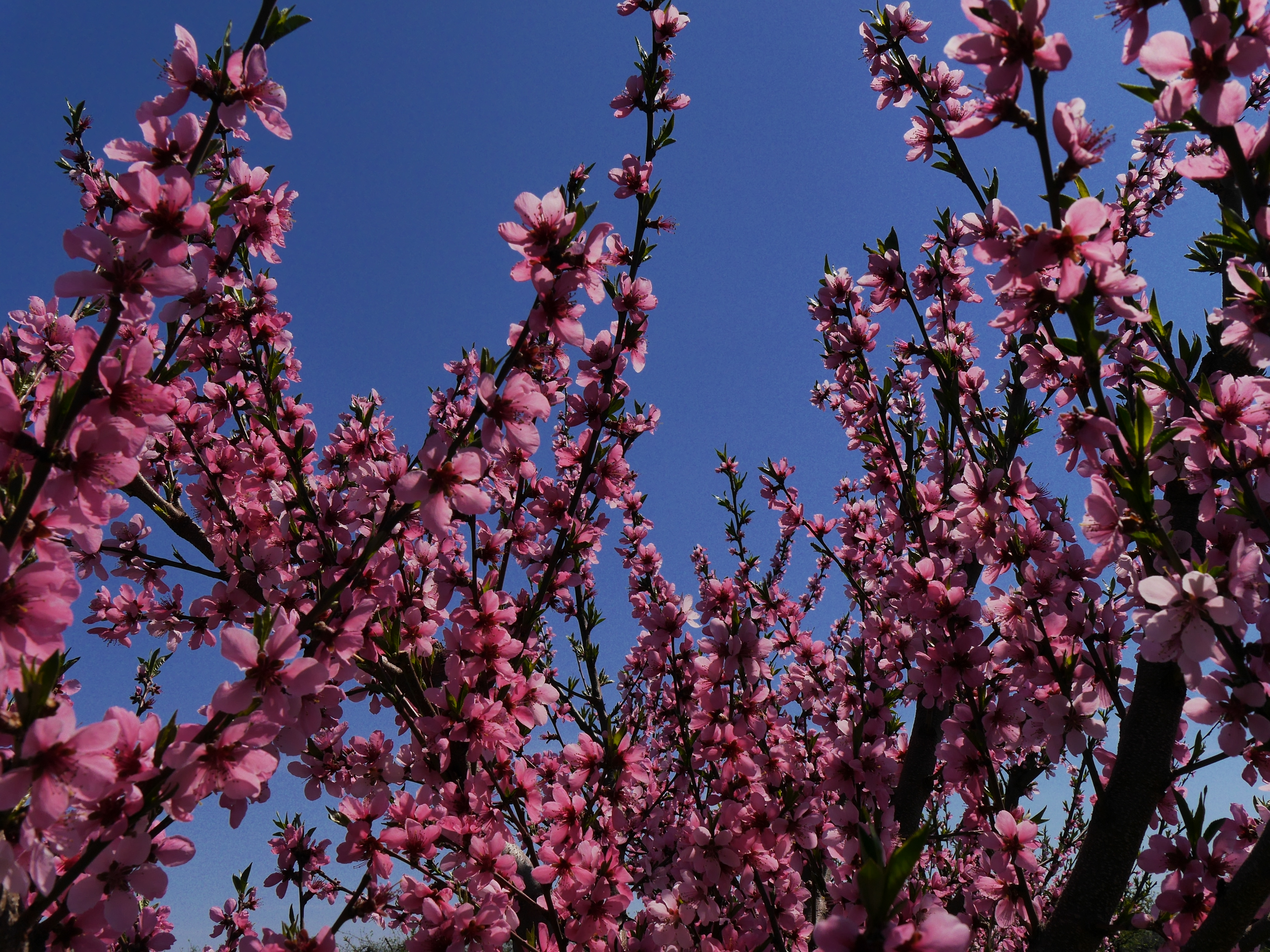 Flowering of peach trees